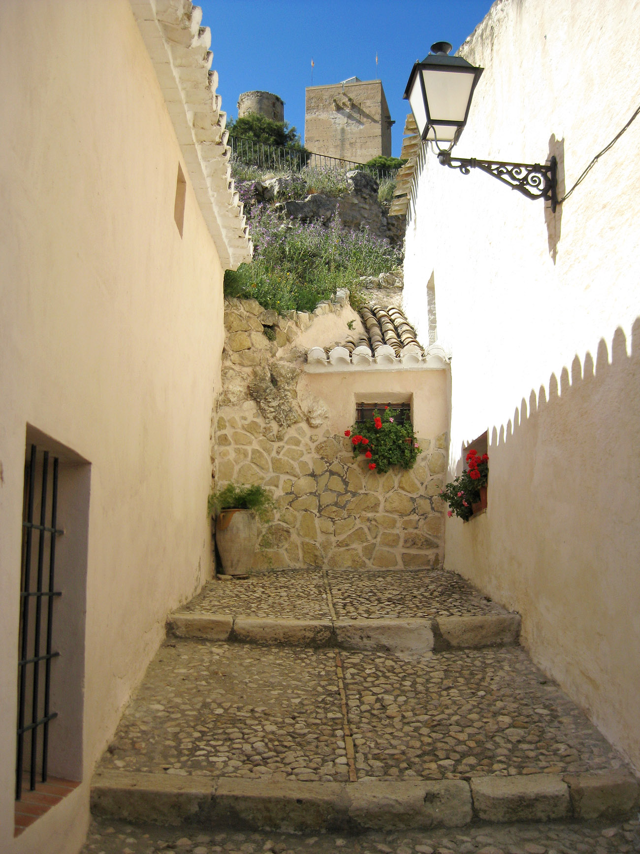 Cul-de-sac in Biar, Valencian Country, Spain. Atzucac de la vila de Biar, Alt Vinalopó, País Valencià